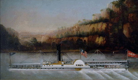 Steamboat Troy, painted by James (1815-1897)